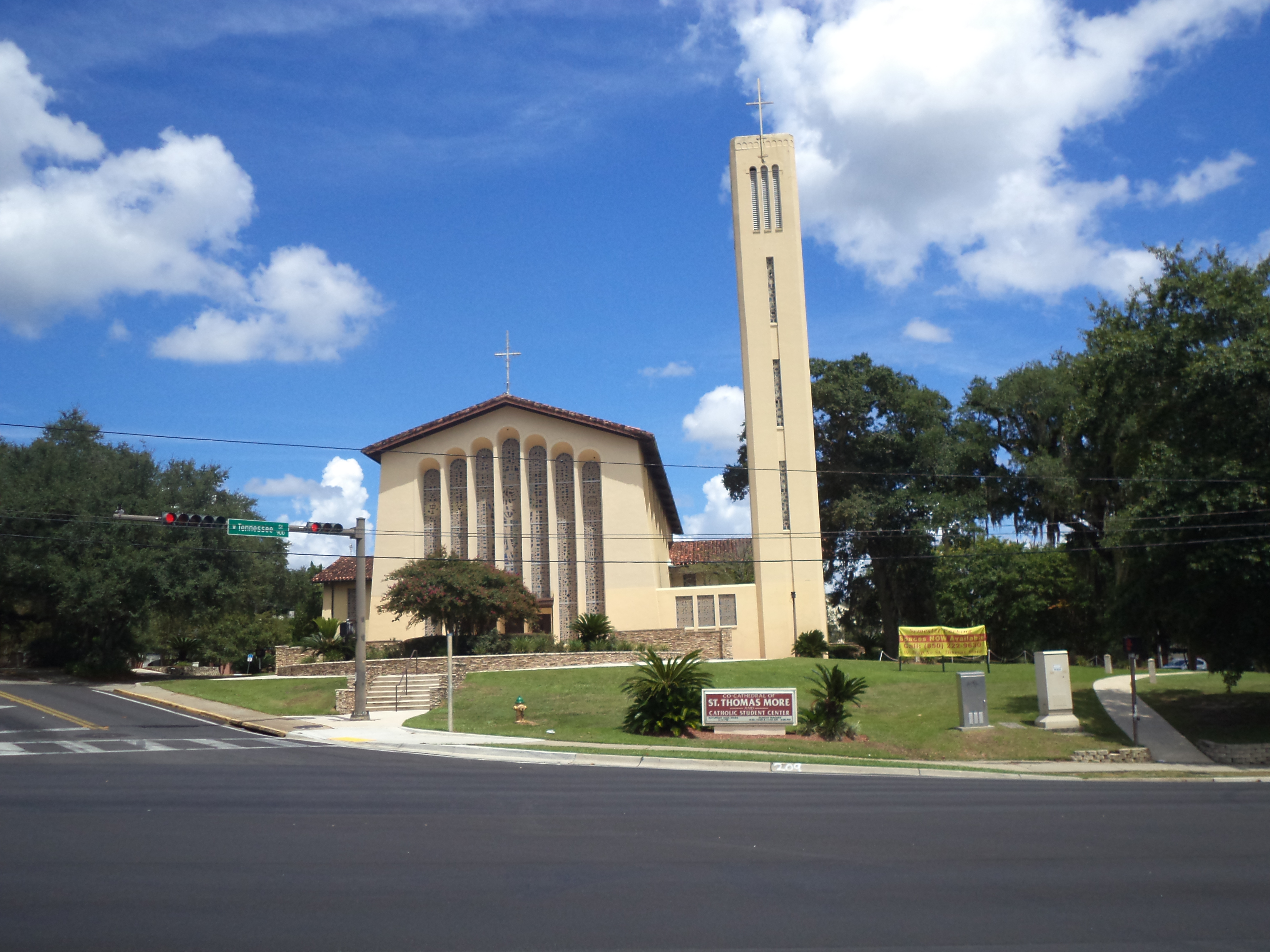 Co-Cathedral of Saint Thomas More, 900 W Tennessee St., Tallahassee, Leon County, Florida